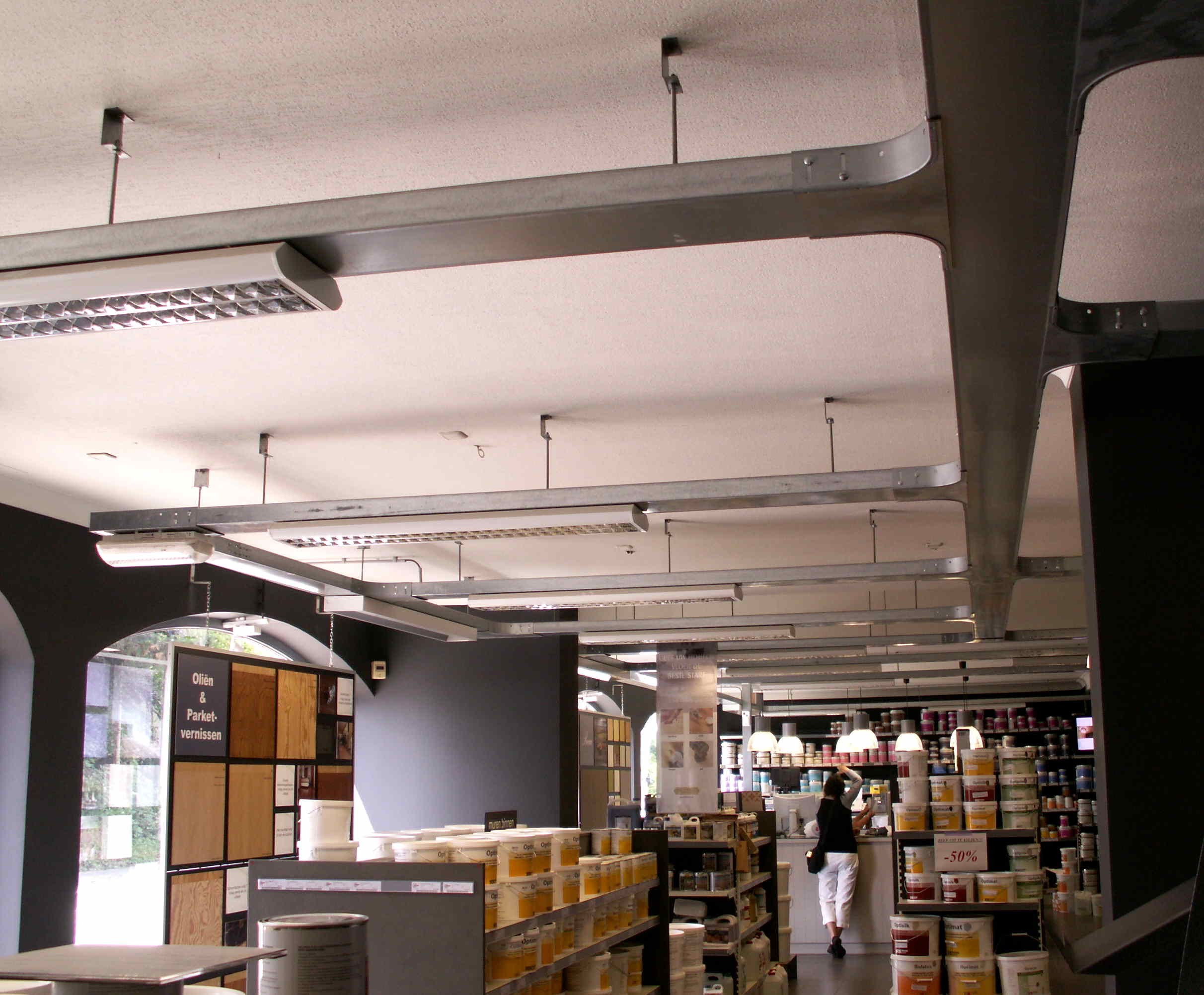 Cable trays are used in commercial, residential and industrial applications to hold up electrical cables. They tend to range in size from 15cm wide to 91cm wide x 15cm tall and are available in aluminium, galvanised steel, thermoplatic (in Europe) and fibreglass re-inforced plastic. Easy access to the cables for making changes is a key benefit to using this method to carry cables. Also, for buildings situated in moist (or monsoon) areas, having the cables up this high (rather than needing to lay them into the flooring) is also beneficial.